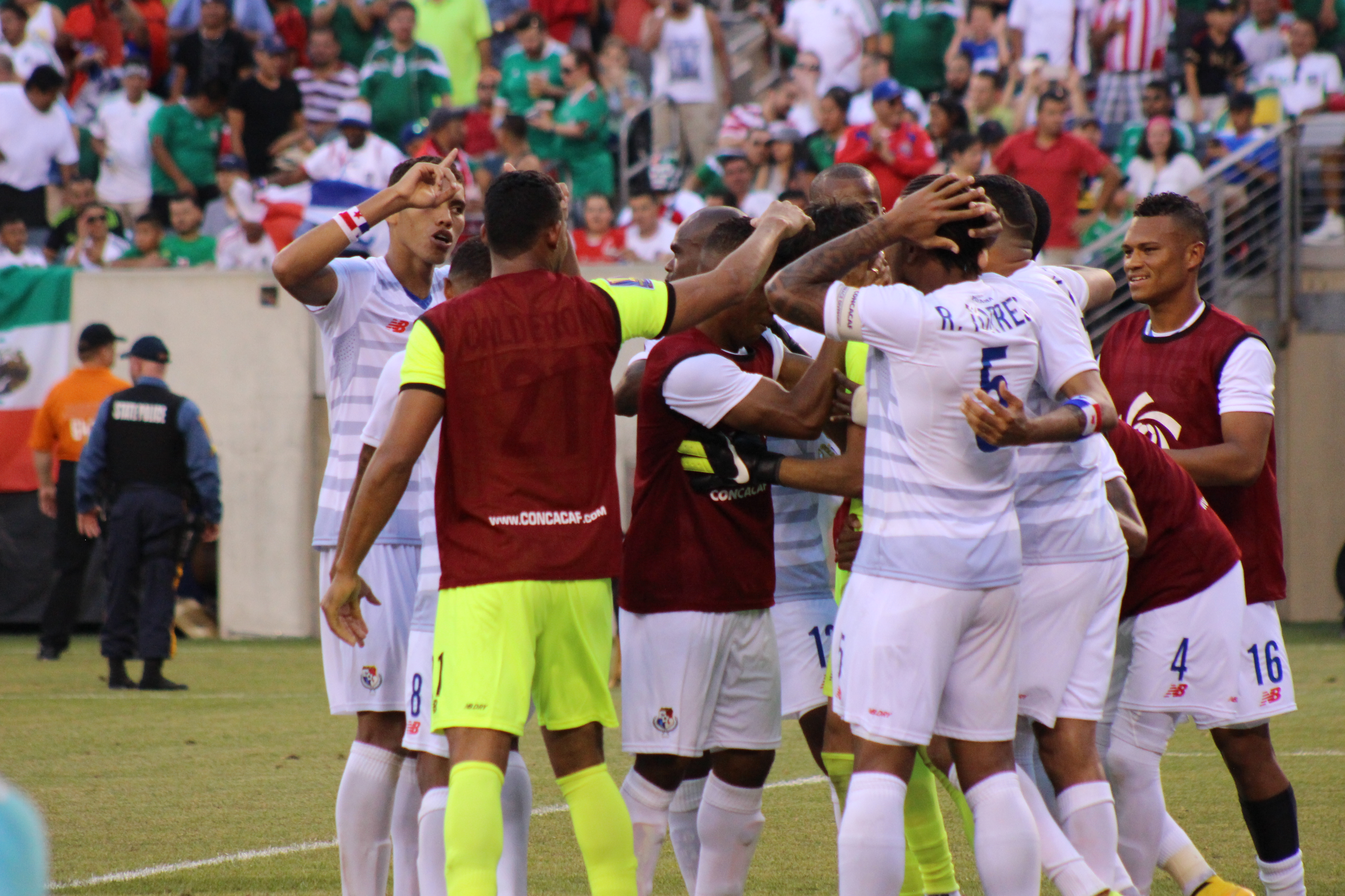 Panama national team during their celebration against Trinidad & Tobago in 2015 Gold Cup.